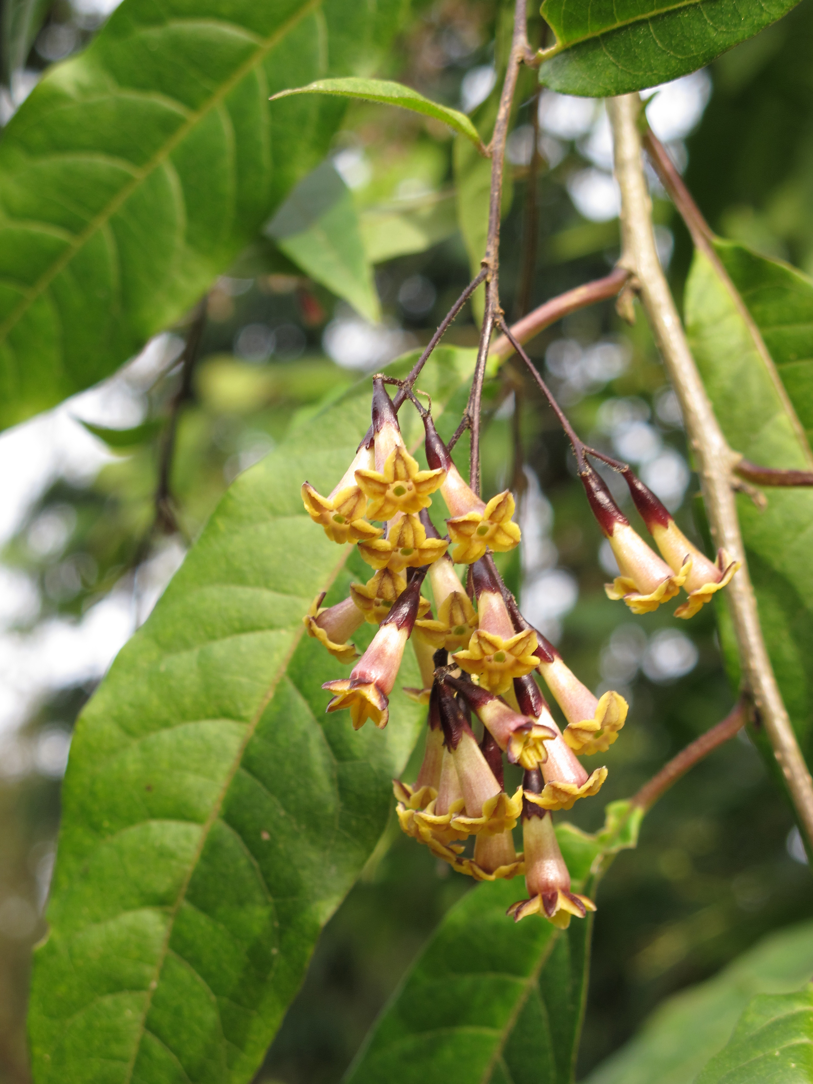 San Francisco Botanical Garden at Strybing Arboretum, California.